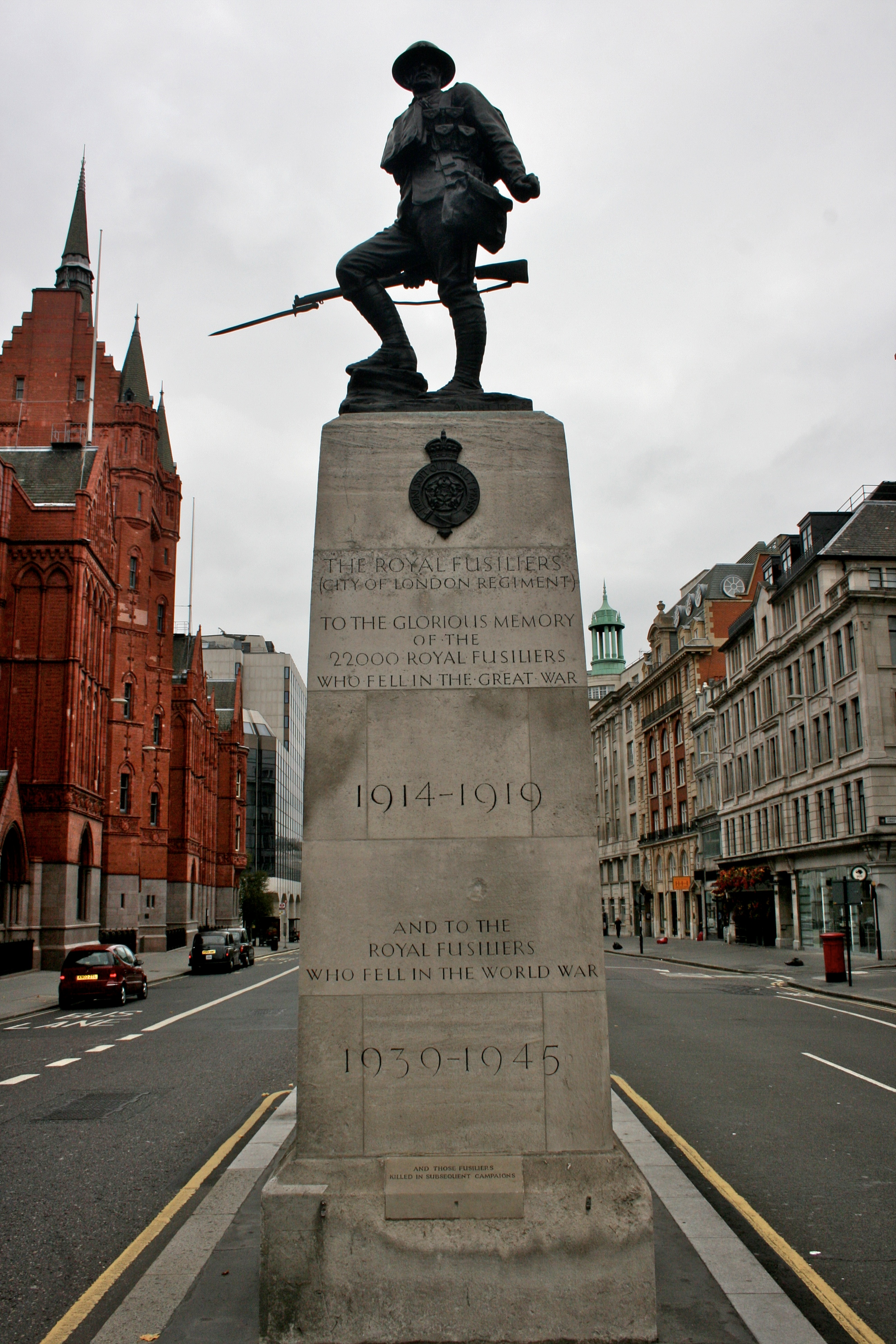 Royal London Fusiliers Monument, Holborn, London.